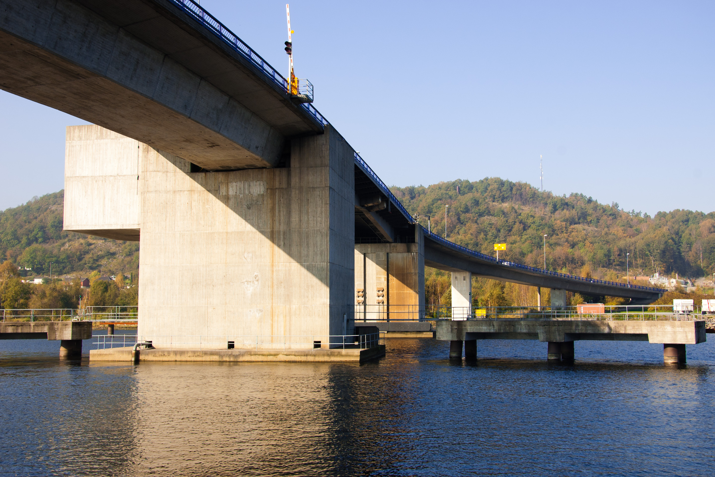 Frednesbrua road bridge on county road 354 in Porsgrunn, Telemark county, Norway.